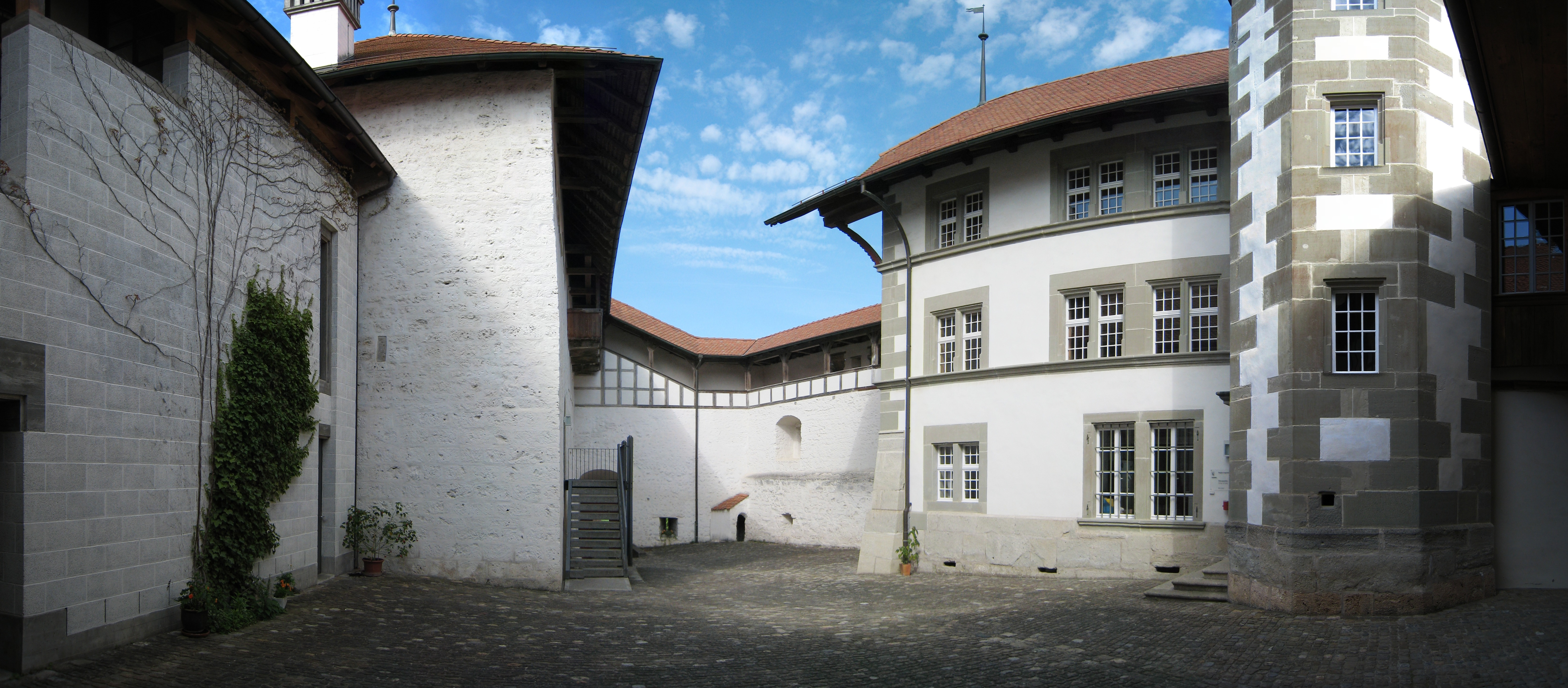 Courtyard of Laupen Castle, Switzerland.